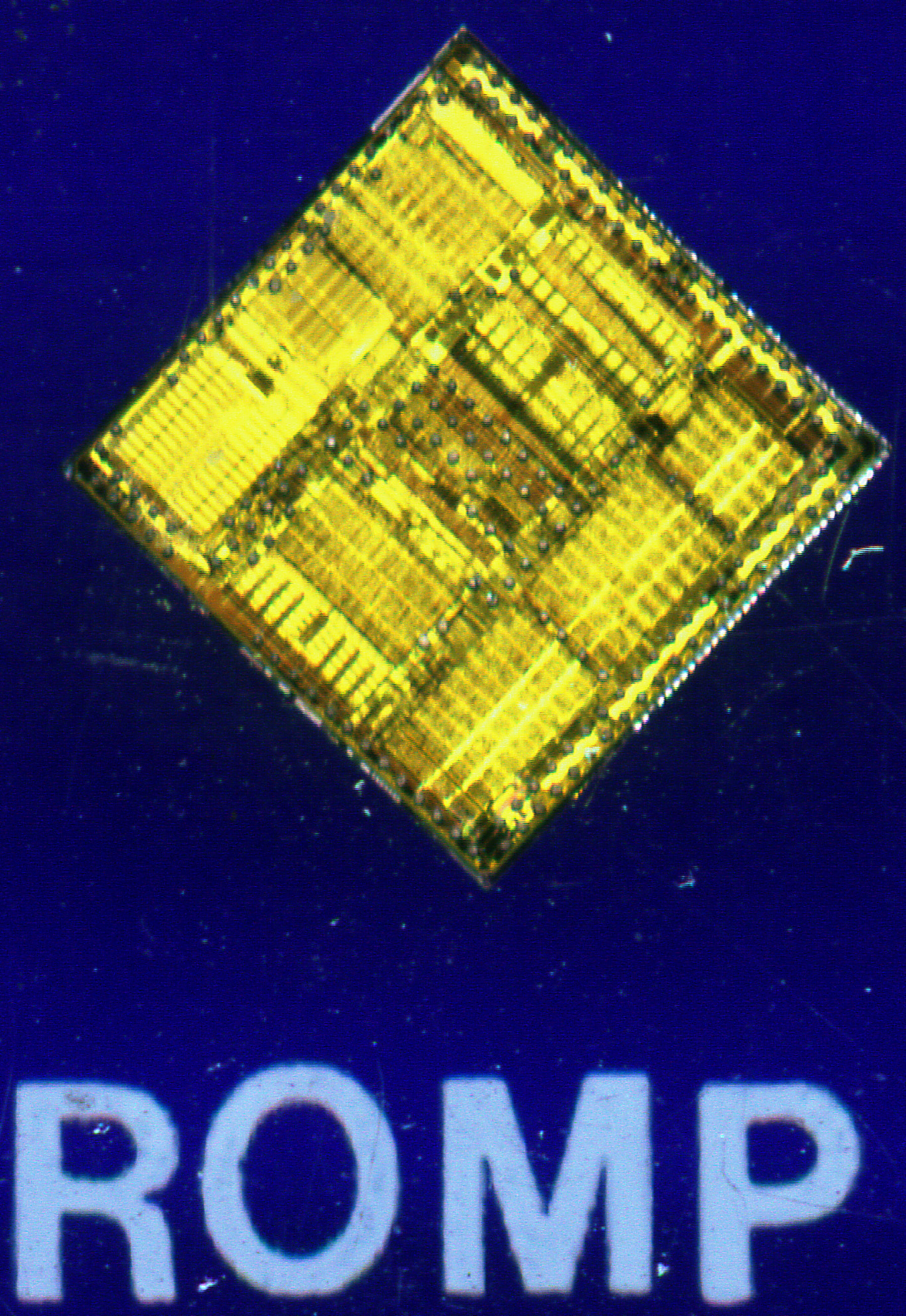 Scanned from a lucite paperweight I have that contains two ROMP processors and two ROSETTA processors. The ROMP processors say ESP AUSTIN beside them and the ROSETTA ones say GTD BURLINGTON beside them.